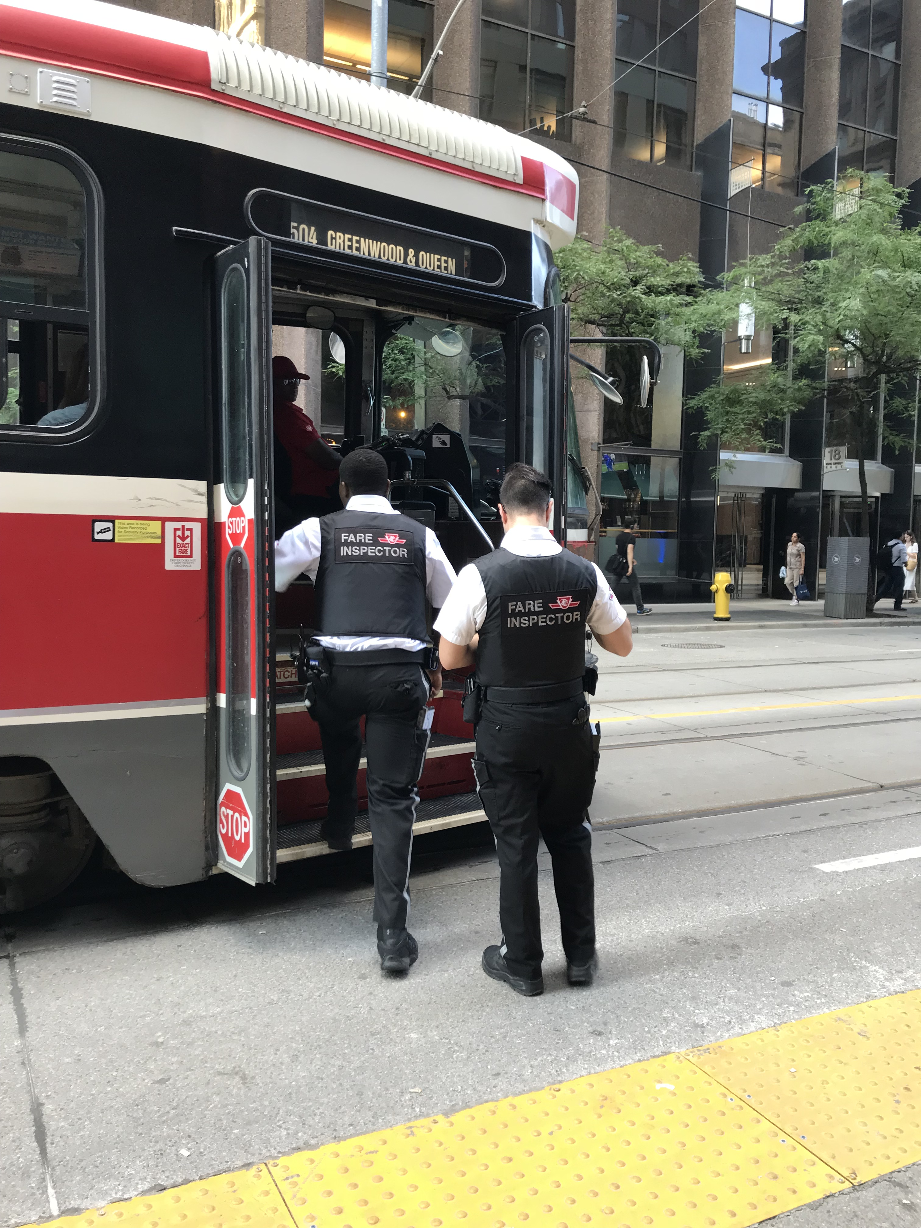 TTC Fare Inspectors board the 504 Streetcar on King Street.